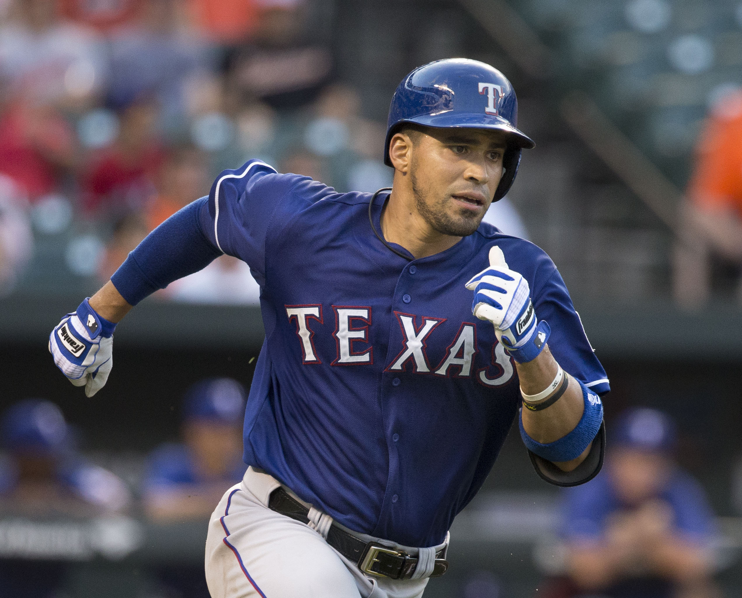 Robinson Chirinos